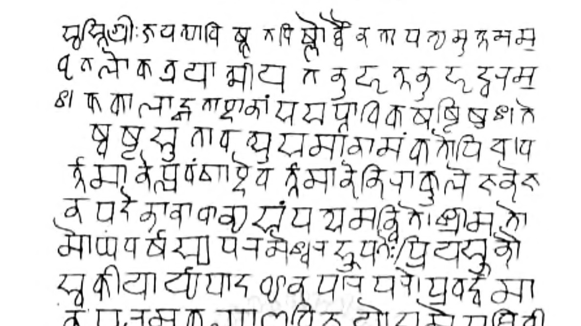 This inscription was published on pages 210-211 of Indian Antiquary, A Journal Of Oriental Research in 1872. This Salotgi inscription is on a hard rock surface that would have been difficult to inscribe. The language is Sanskrit, most of the inscription lines are Devanagari, but some bottom lines are in old Kanarese script that were likely added later as the content does not make contextual sense with the Sanskrit text above. The inscription dates it to Saka 867 (945 CE). Its origin of this 10th century stone is unclear. It was first found in the 19th century mostly buried near a drain close to the syncretic Hindu-Muslim tomb in a region ruled by Deccan Sultanates. The top of the inscription stone has an image of Linga and Nandi, suggesting that it was created by some Shaiva Hindu community. According to the inscription, the stone proclaims that a college has been established for learning and intelligence, with Brahmins and scholars from different districts due to grants from the king. It further states that the kingdom grants the college 500 nivartanas of land without rent (1 nivartana = 200 square cubits). [For source: see pages 210-211 of the source, with footnotes]. Another section of the inscription states that Govinda Budha donated to the college 27 rent free dwellingsplus rent free flower gardens covering 4 nivartana. It mentions special donations during rite-of-passage ceremonies, and that the villagers provide dinner to the staff of the college according to their means.